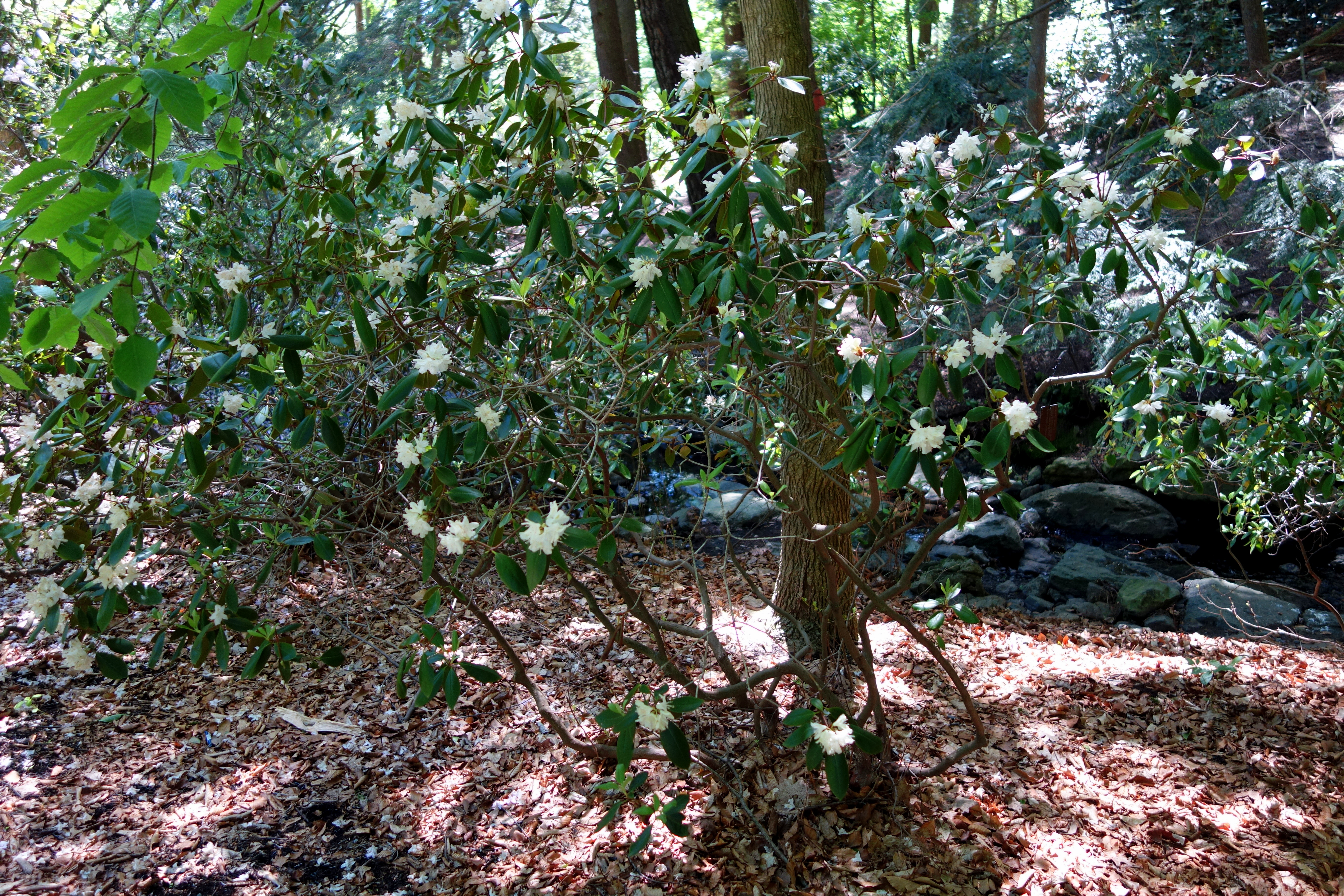 Rhododendron specimen in Arnold Arboretum, Jamaica Plain, Boston, Massachusetts, USA.